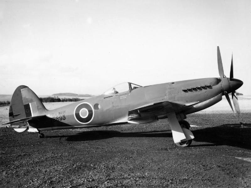 One of two Supermarine Seafang F.32 (s/n VB895). The F.32 had folding wings, increased fuel capacity and a 2,350 hp Rolls-Royce Griffon 89 engine, driving two three bladed contra rotating propellers.